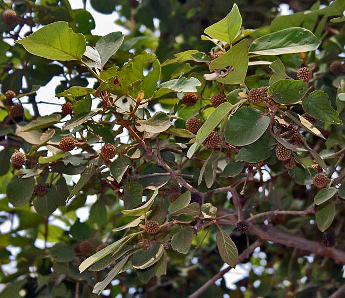 Kaim Mitragyna parvifolia at Hodal in Faridabad District of Haryana, India.